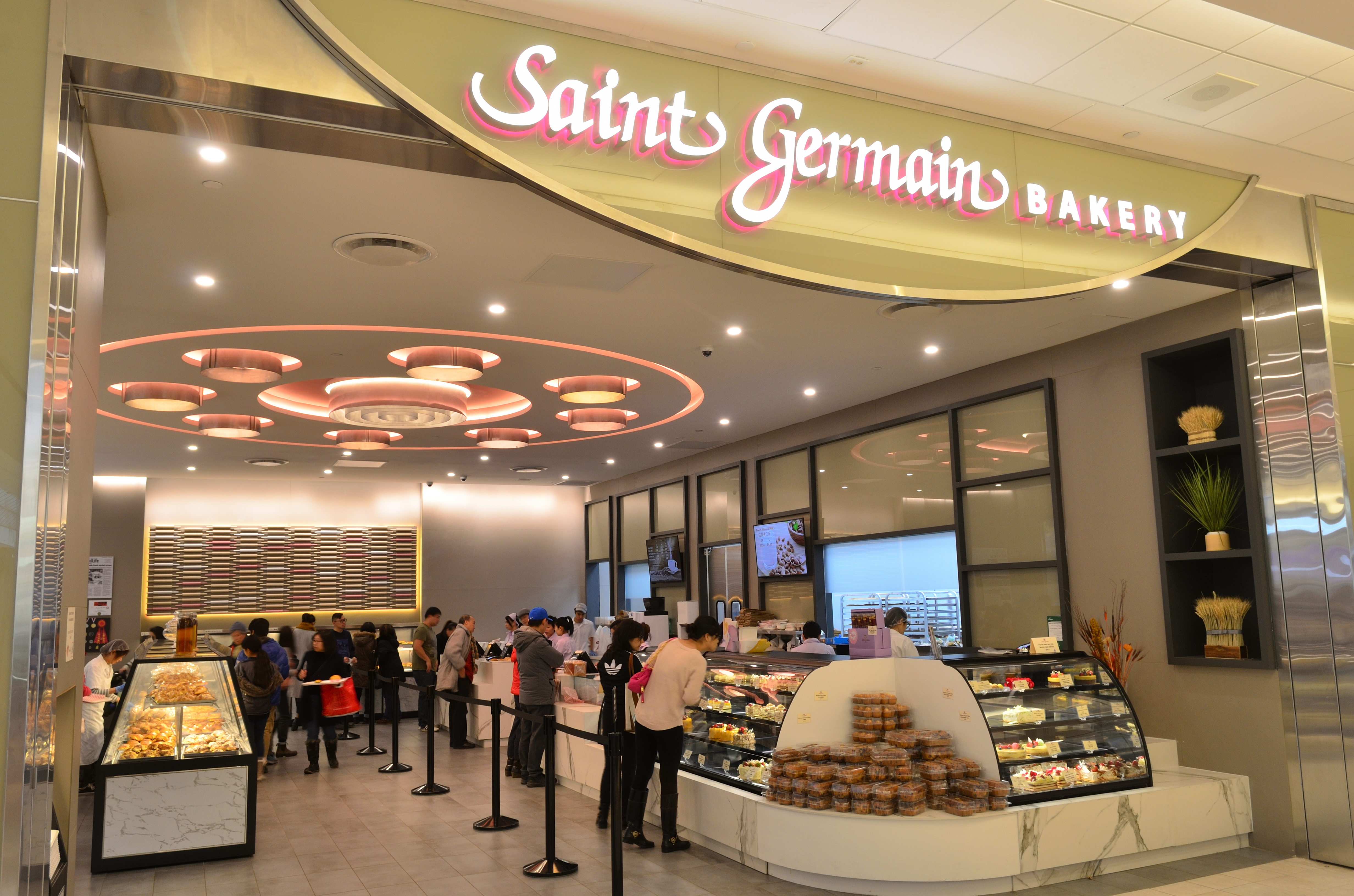 Saint Germain Bakery at Markville Mall